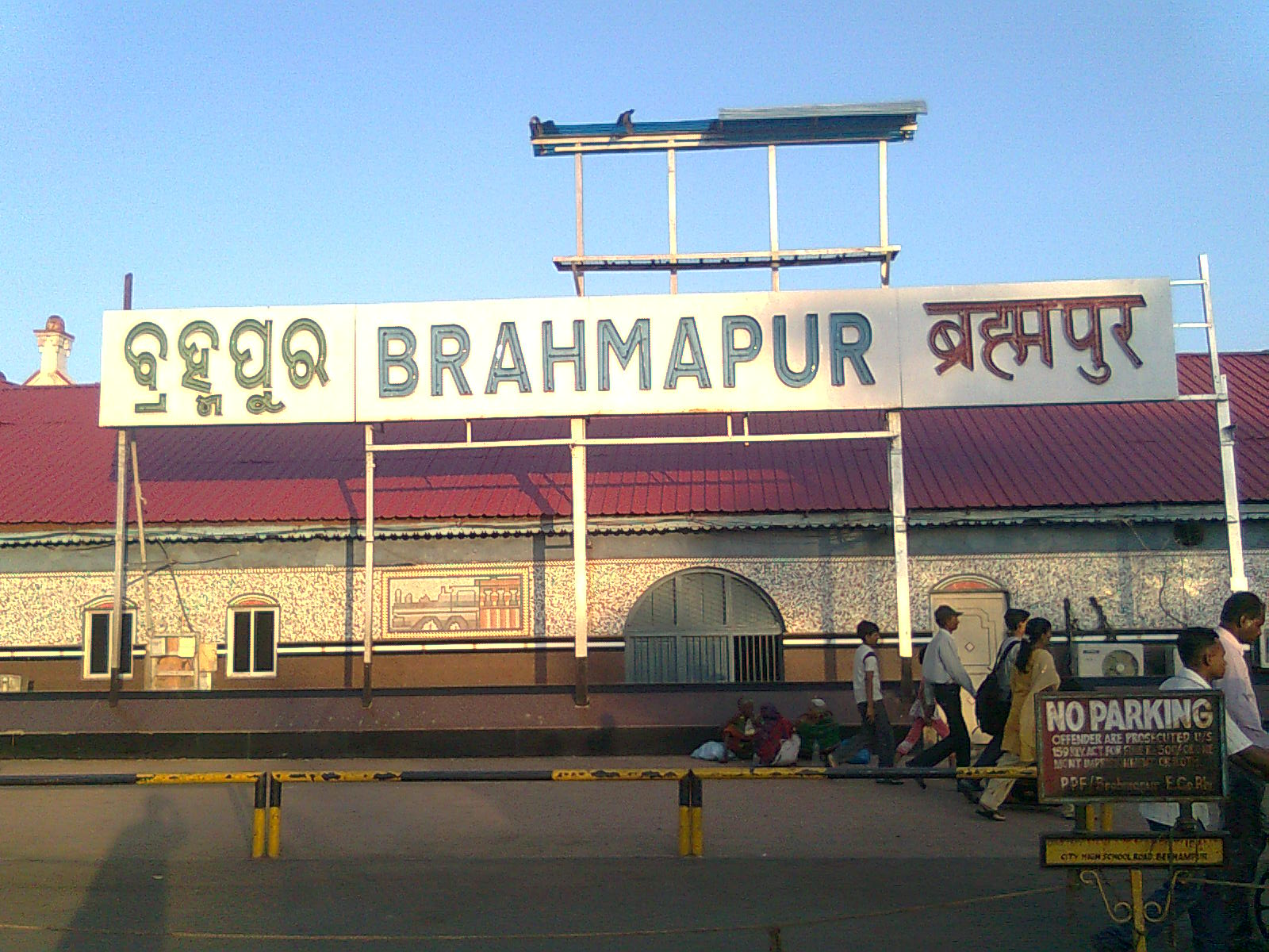 brahmapur railway station